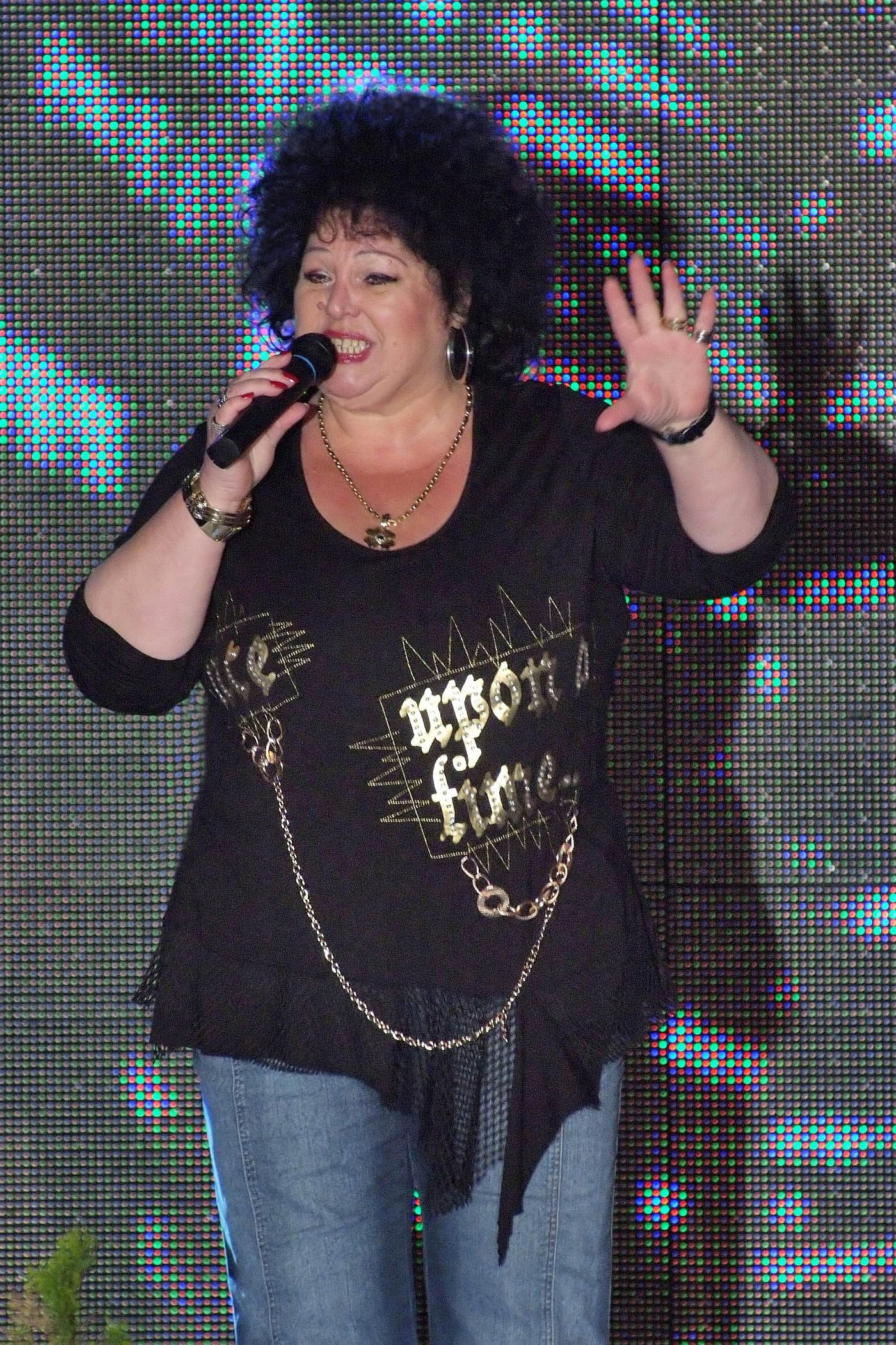 Hungarian singer